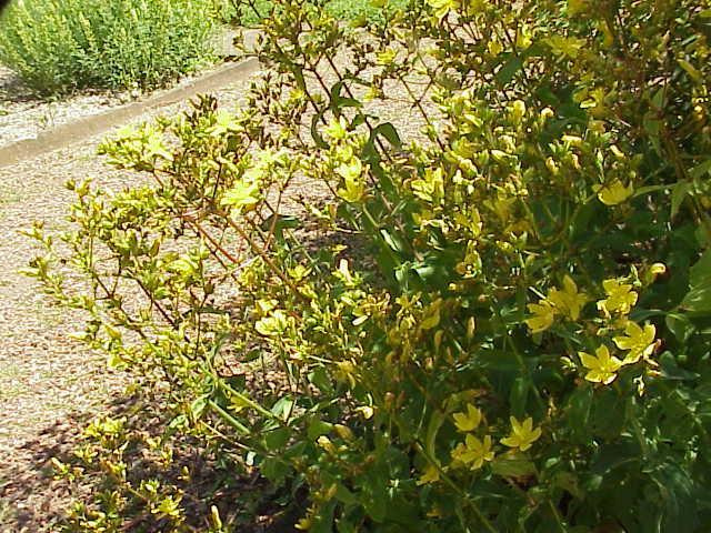 Species: Hypericum tomentosum Family: Hypericaceae Image No. 3